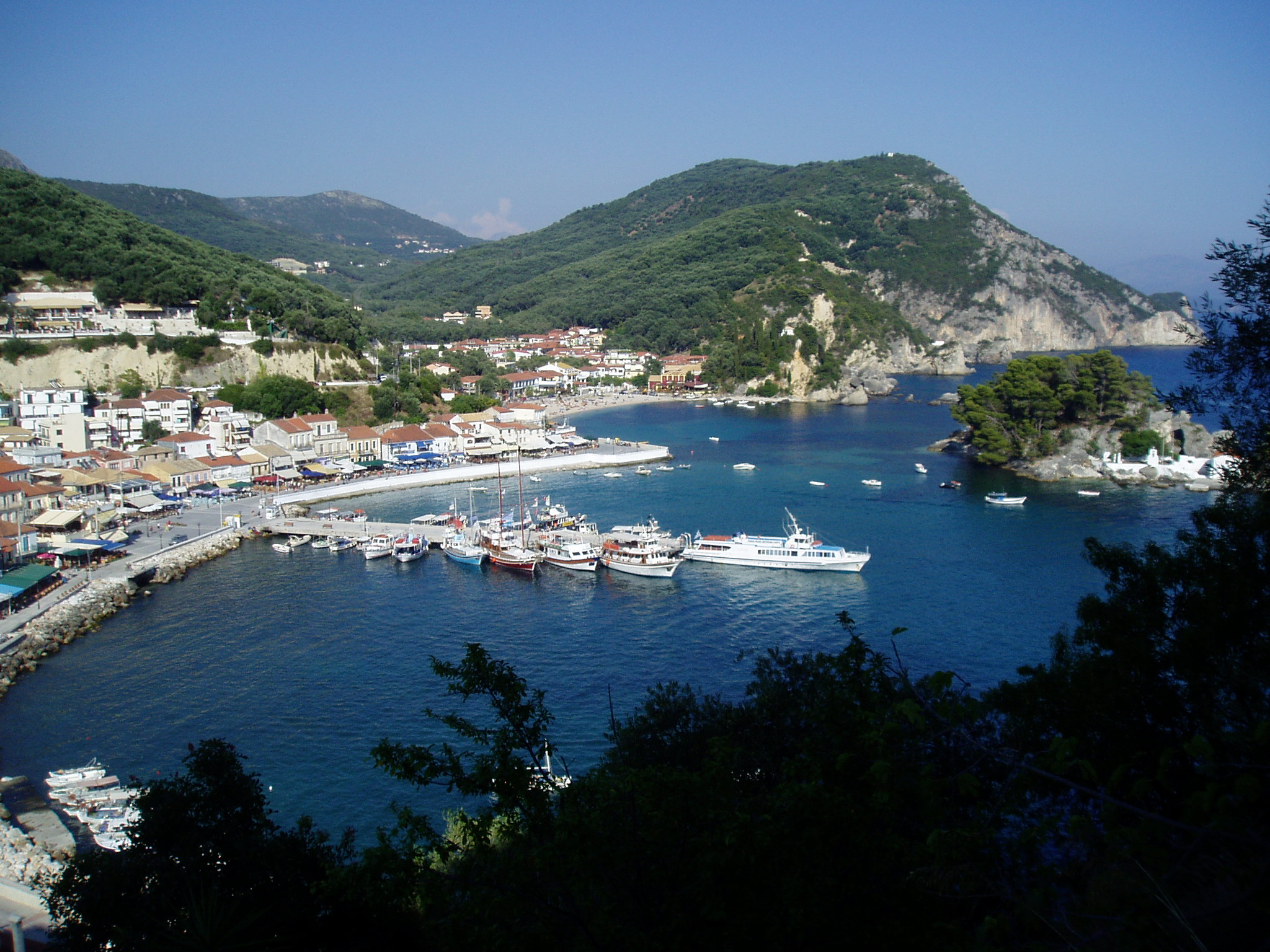 General View of Parga with the Panagia Island